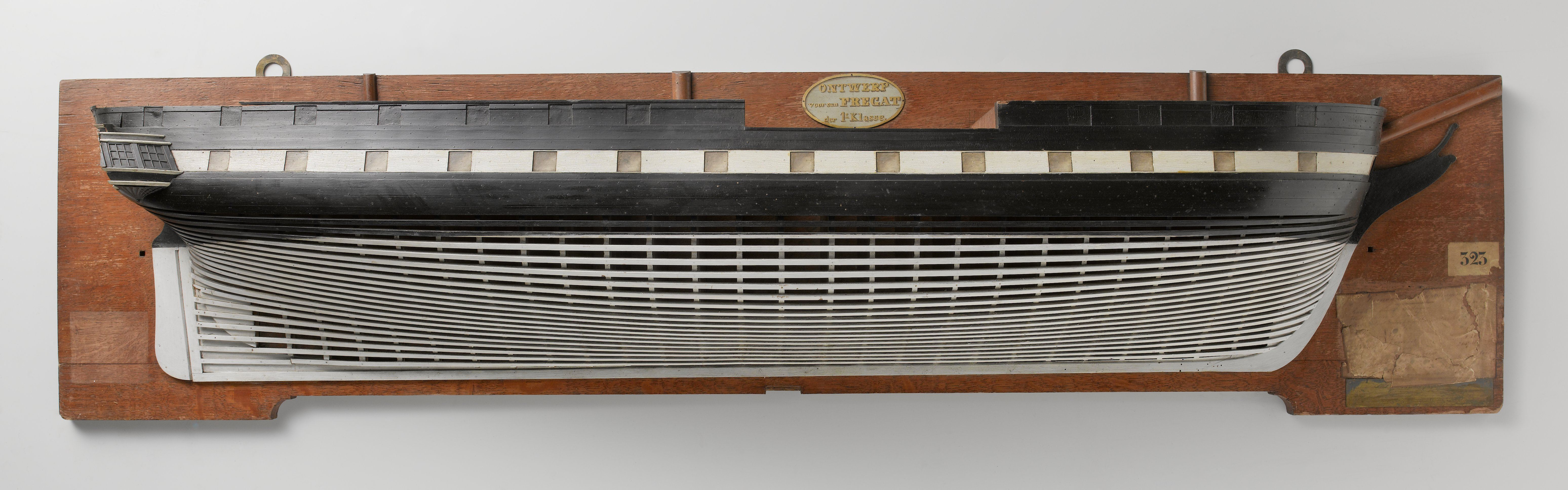 This is probably the model that was sent from Flushing to the Navy Model Room in 1844.2 It shows a design by August Elize Tromp (1801-1871) for a frigate of the first rate.3 Four frigates in this class were constructed; De Ruyter, a cut-down (‘razeed’) ship of the line, was one of them. Dimensions: h 36 cm × w 139.1 cm × d 18.2 cm